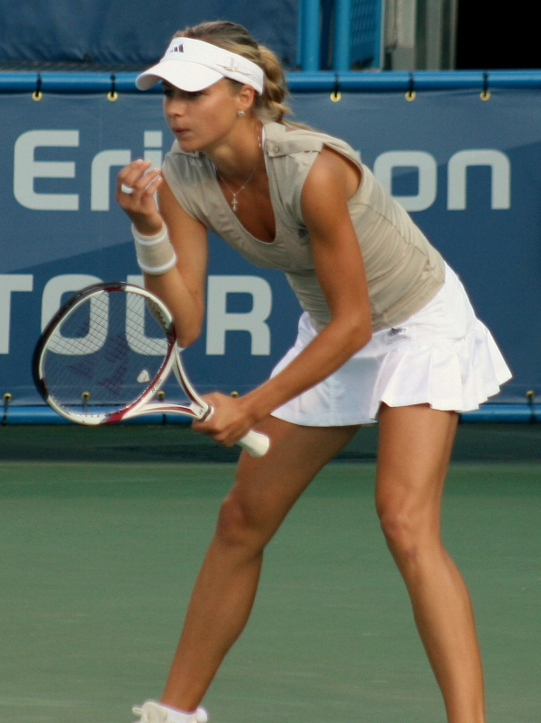 Kirilenko's customary gesture